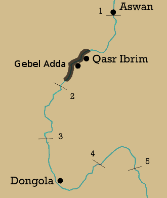 This map depicts the minimum extension of Makuria after the relocation of the capital to Daw aka Gebel Adda. It is based on documents from Qasr Ibrim, attesting an extension from Tomas in the north to Adindan in the south, making a north-south extension of almost 100 km. Source: Roland Werner: "Das Christentum in Nubien. Geschichte und Gestalt einer afrikanischen Kirche"